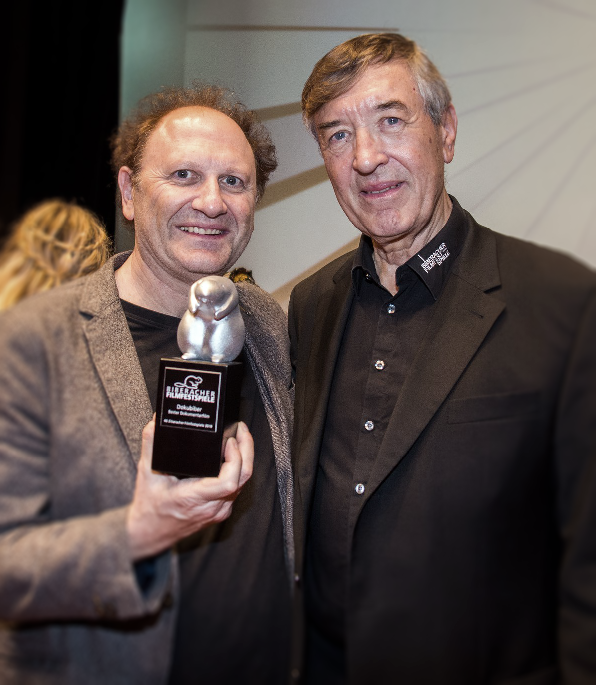 Douglas Wolfsperger wins his third Documentary Beaver for "Scala Adieu" at the 40th Biberach Film Festival. Next to him: Festival founder Adrian Kutter.